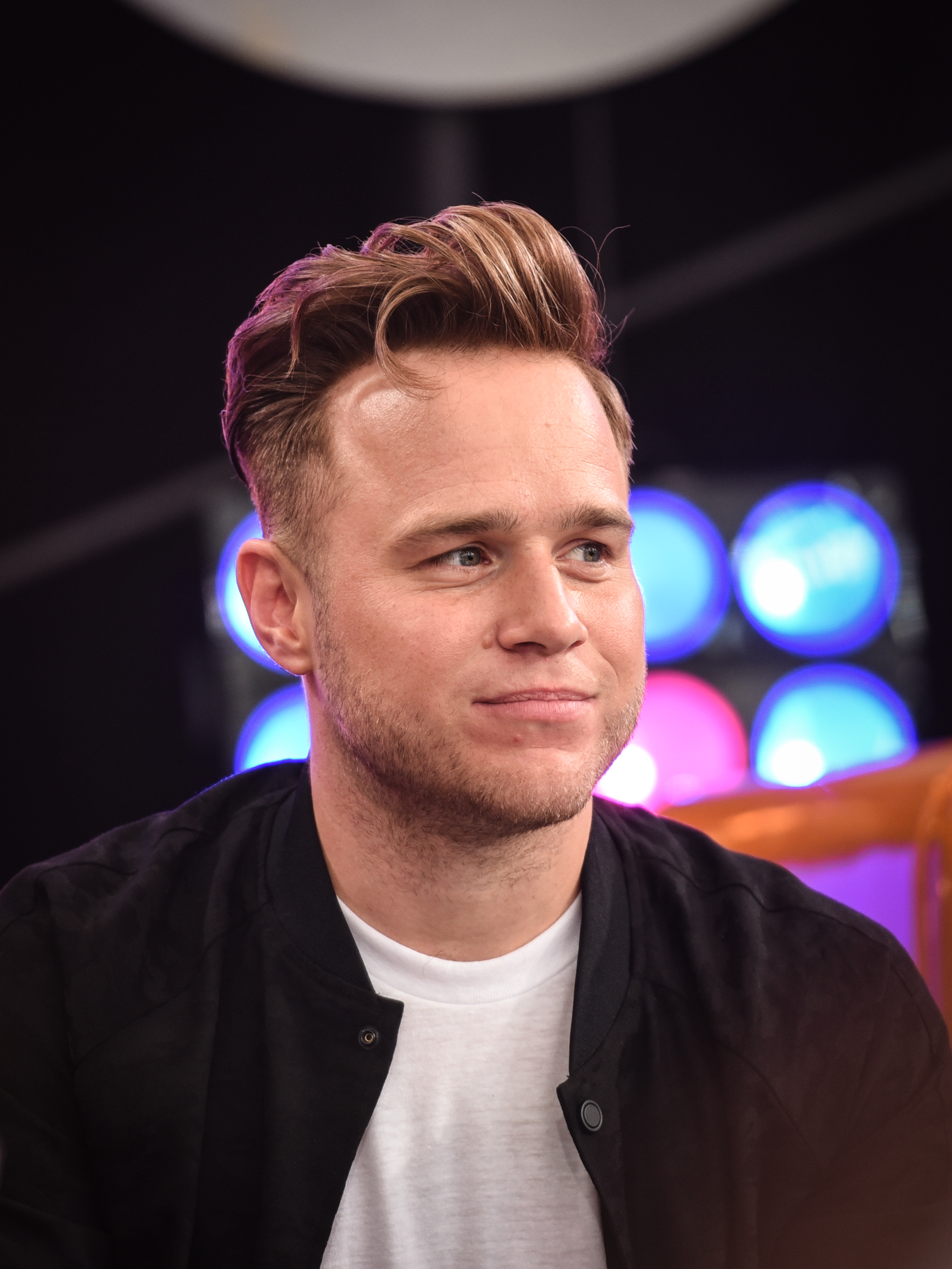 British singer Olly Murs at the SWR3 New Pop Festival 2017